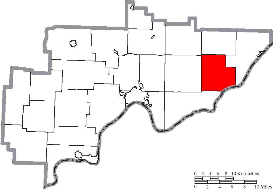 Map of the municipal and township boundaries of Washington County, Ohio, United States, as of the 2000 census, with the location of Independence Township highlighted. Township borders are shown only in unincorporated areas in order to differentiate incorporated and unincorporated areas more clearly.